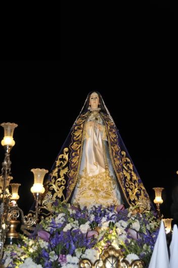 Santa Mujer Verónica